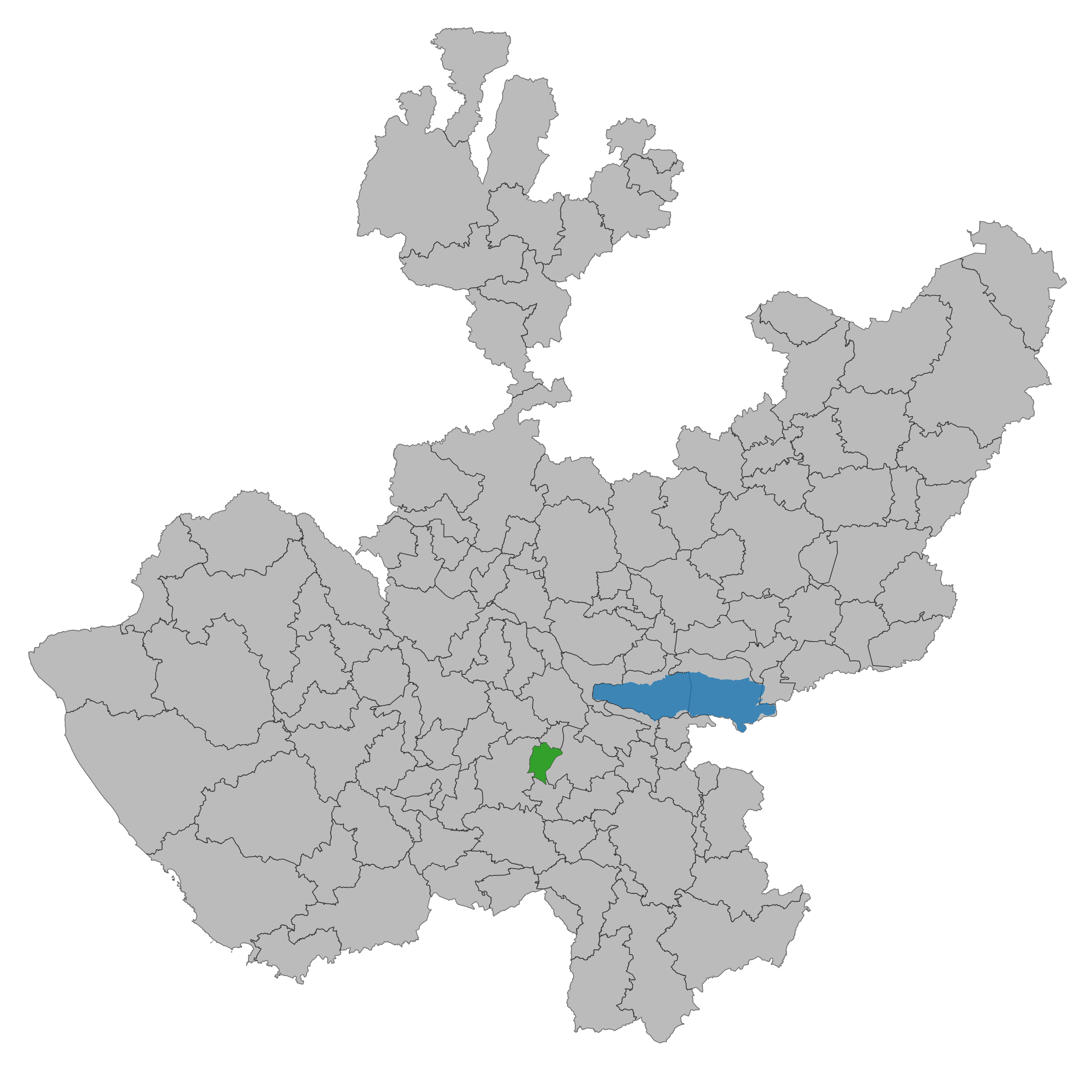 Municipality of Jalisco. Prepared with the software QGIS version 2.8.2 Wien & with information of SCINCE 2010 version 05/2013